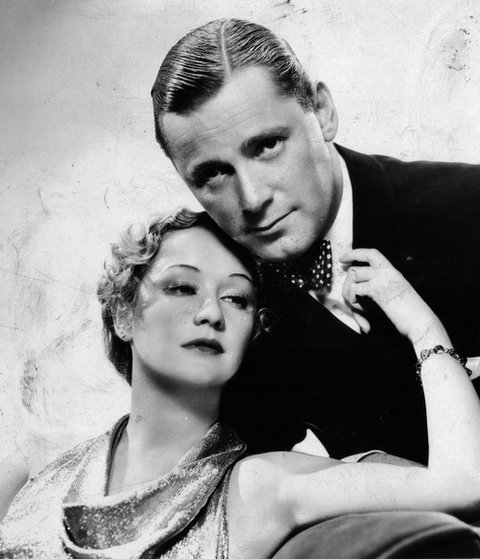 Publicity photo of actors Herbert Marshall and Miriam Hopkins, intended to promote the 1932 film, Trouble in Paradise Other information If the image was copyrighted, the copyright would have had to have been renewed in 1960 (28 years after publication, as stated by the 1909 Copyright Act, which was law until 1978). Searches at The United States Copyright Office provide no indication that this publicity photograph was copyrighted or renewed by 1960.